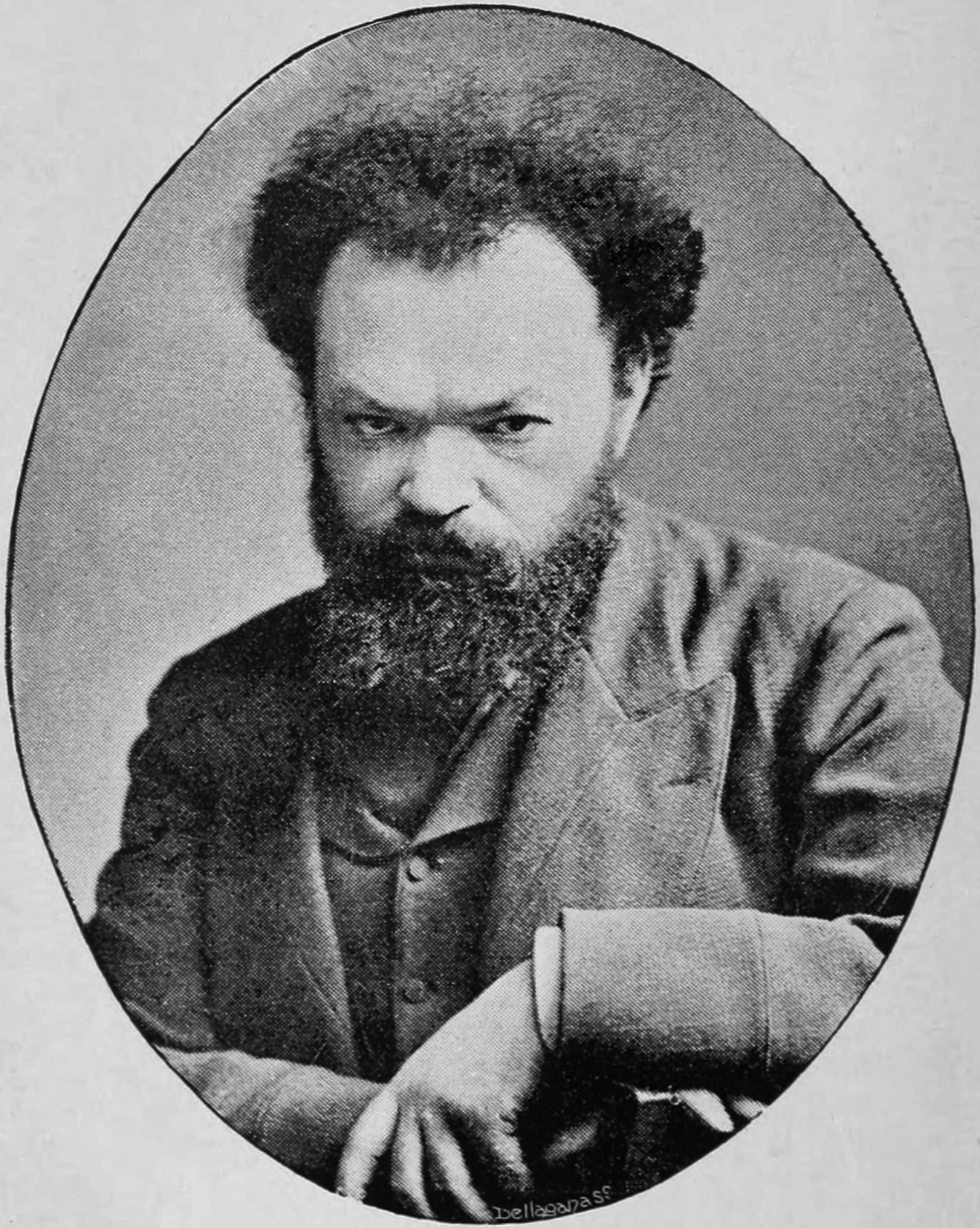 Sergey Stepniak